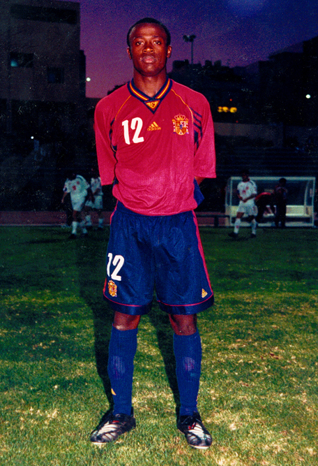 Jacinto Elá playing for spain under 19